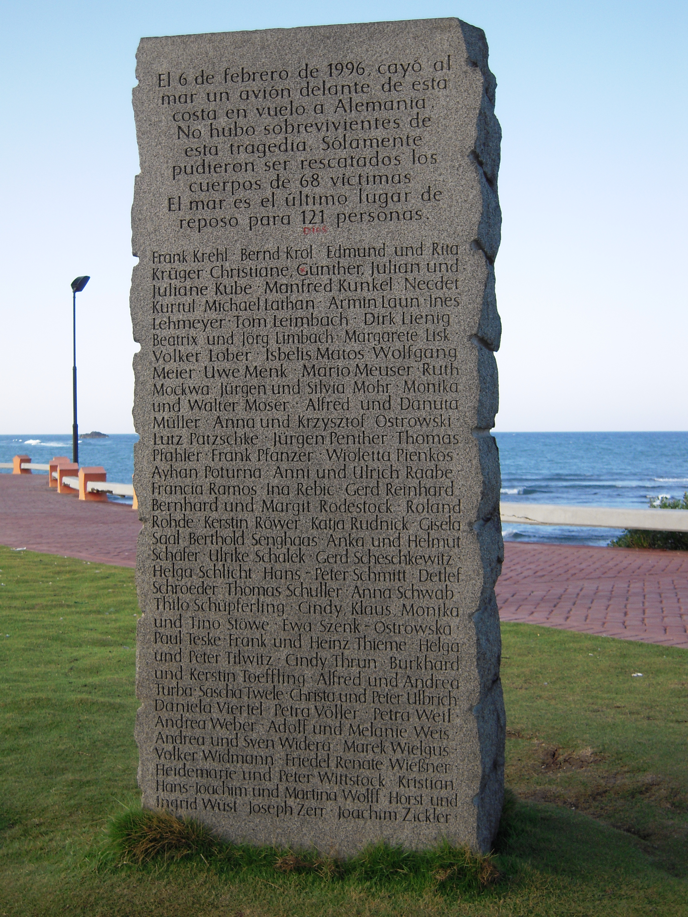 Birgenair Flight 301 Memorial at Puerto Plata (South)